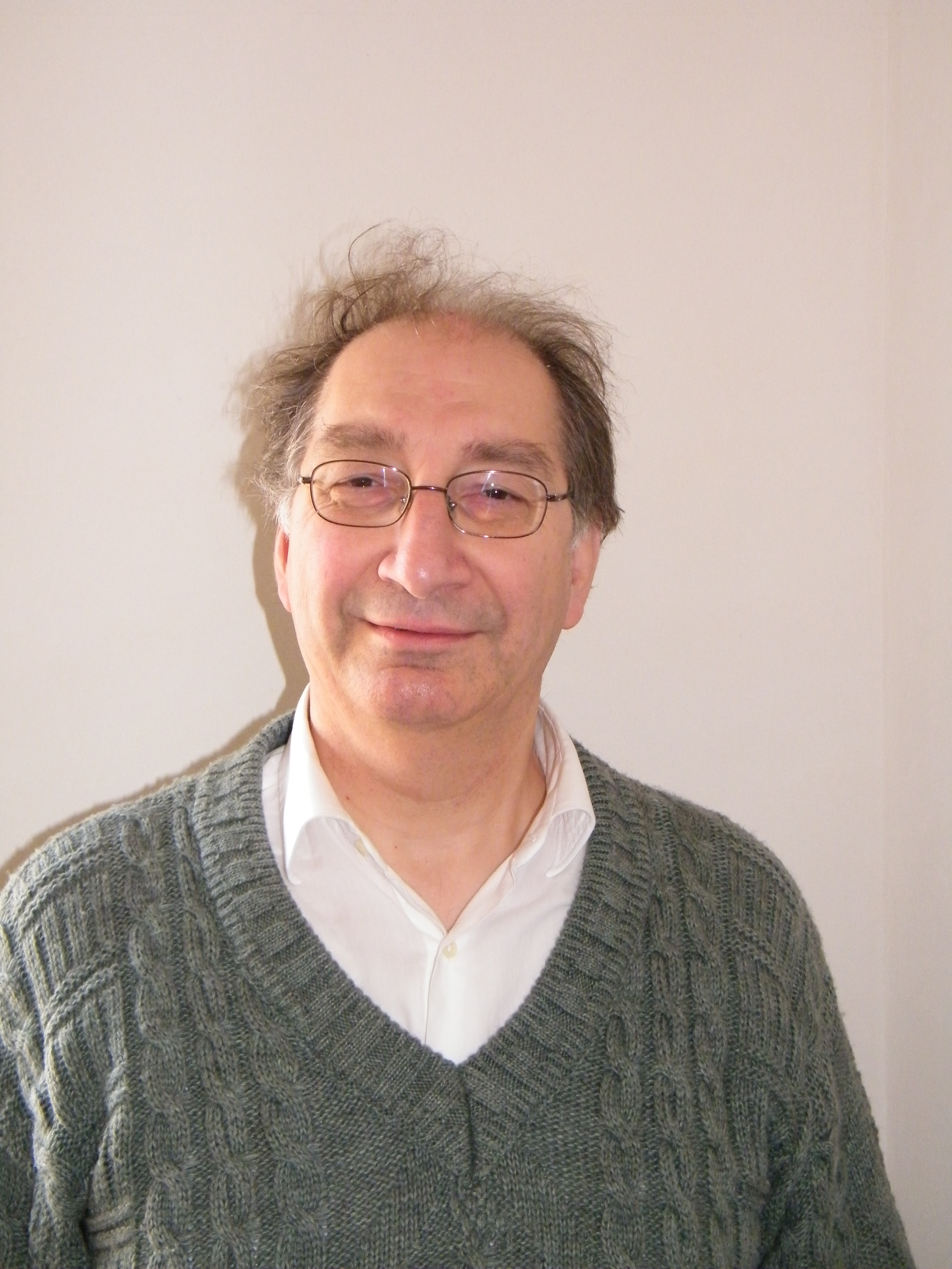 Brunetto Casini at the Center for Interculture and Esperanto, Mazara del Vallo